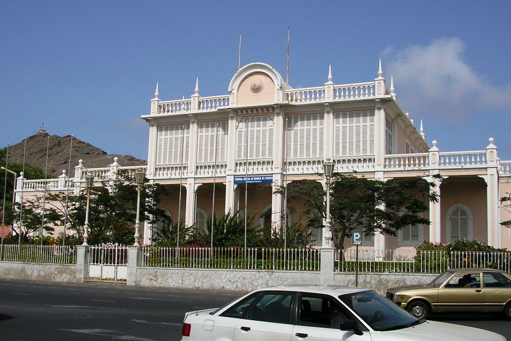 Old Governor's Palace in Mindelo town, São Vicente island, Cape Verde